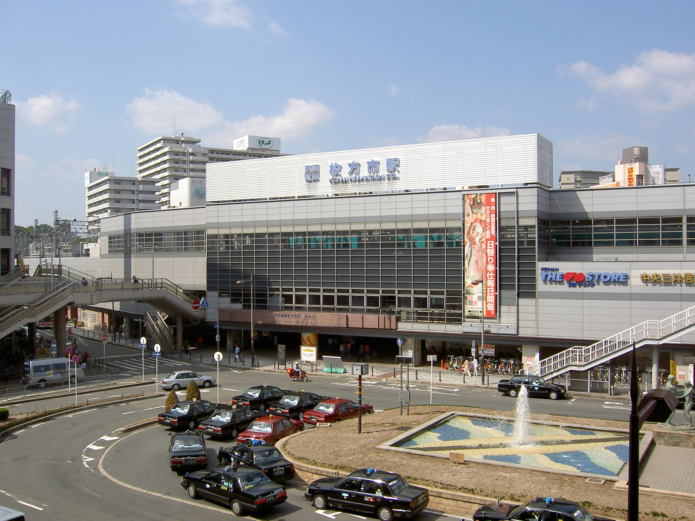 South side of Keihan Electric Railway Hirakatashi Station in Hirakata City, Osaka Prefecture, Japan